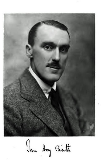 The author Ian Hay, recte John Hay Beith.